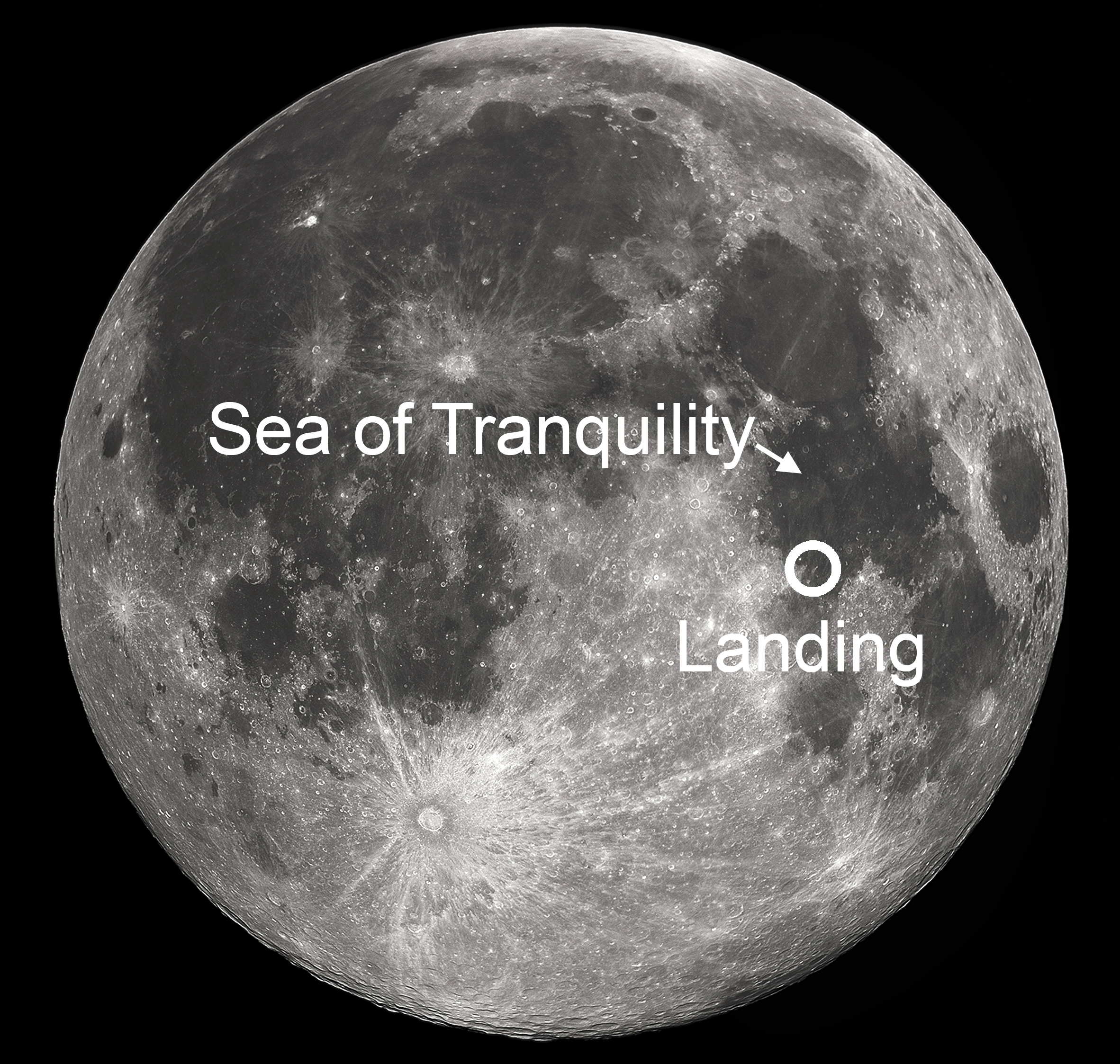 Landing site in Sea of Tranqiulity by Apollo 11. Derived from File:FullMoon2010.jpg and File:Moon landing sites.svg